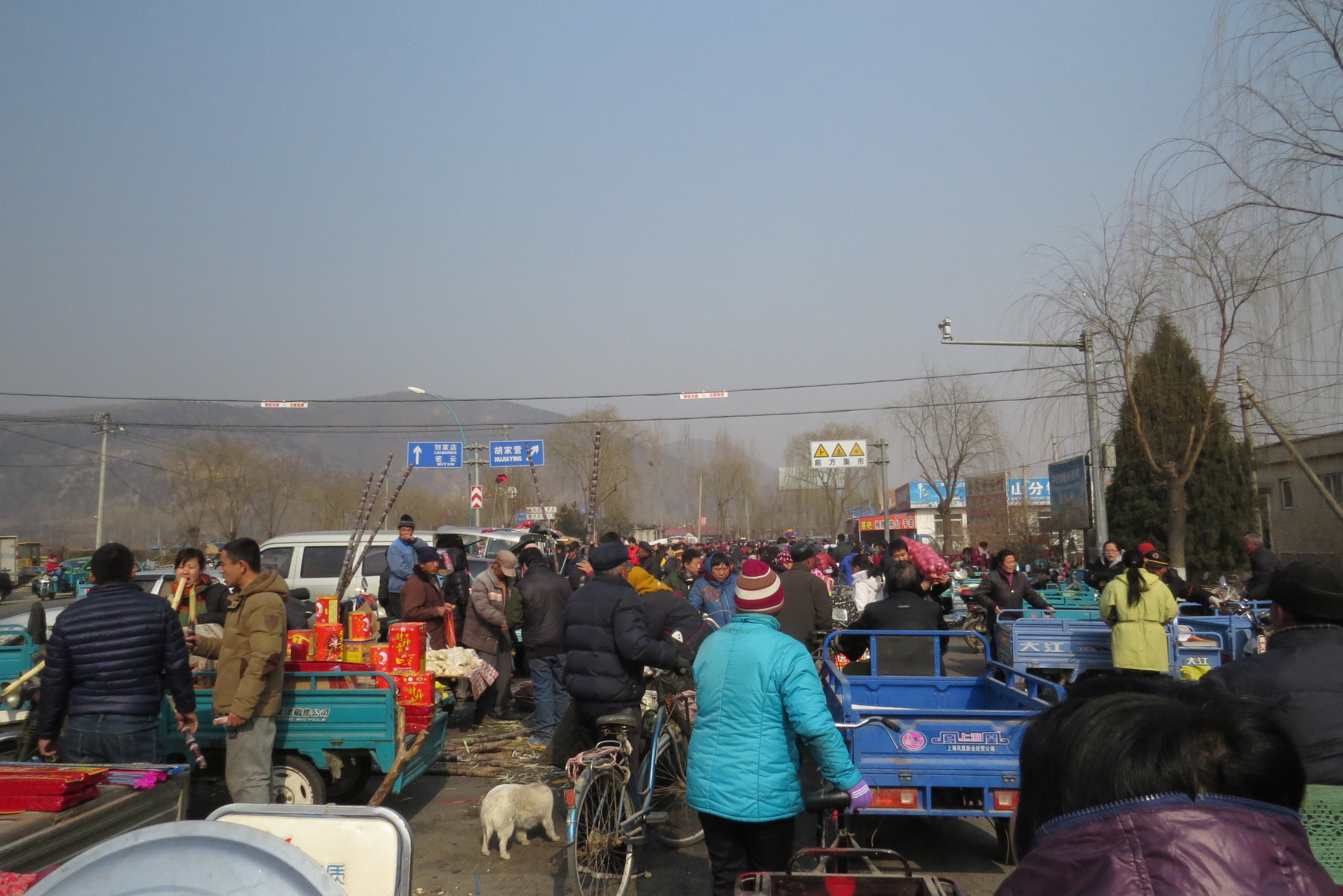 The fair before Chinese New Year in Yukou, Pinggu.